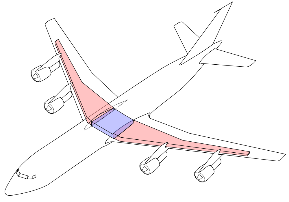 Layout of Jet-liner's main fuel tanks Red:Integral tanks, Blue:Center tank Those tanks body consist of wings' main frame and center box frame, with sealant. Each integral tanks separated by 2-4 chambers. Each edge of wing has a dumping tank for emergency fuel dumping. And inside those, wing has supplementary tank for longer range or trim.